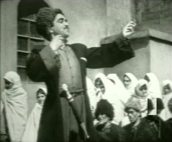 Cadre from Azerbaijani film "Peasants"